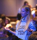 Charismatic